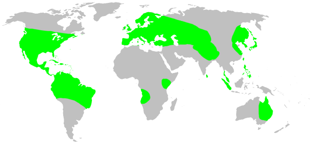 Theridiosomatidae habitat distribution, drawn after Platnick: World Spider Catalog 7.0. This is not a precise rendering of the distribution! If you have better information, please replace this map, or send me the info, and i will redraw it.